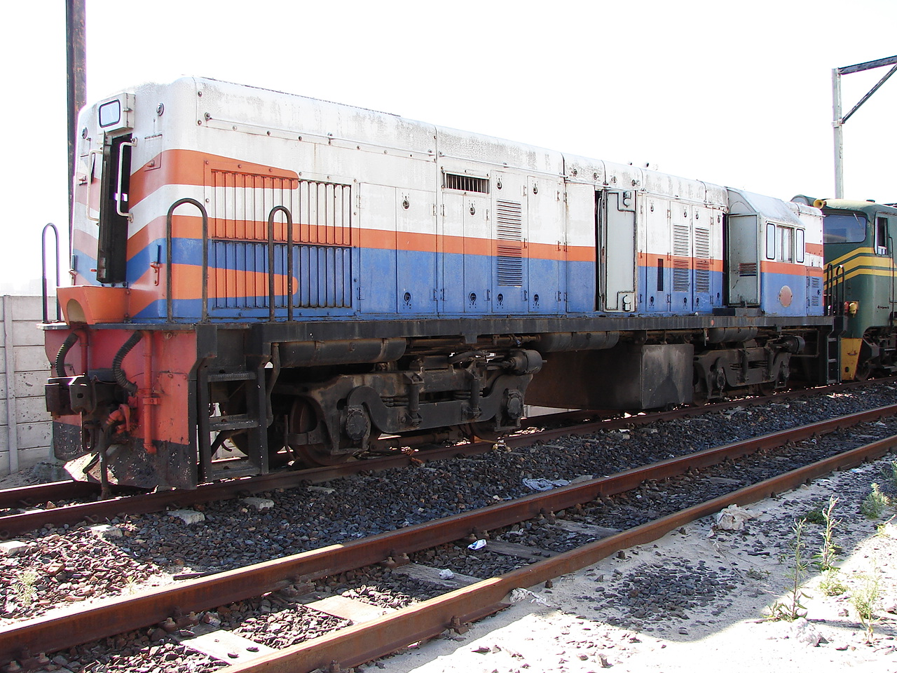 South African Class 31-000 31-028Builder's Number: GE 33534Type: GE U12BLocation: Bellville, Cape Town, Western CapeRenumbering: Renumbered from D727